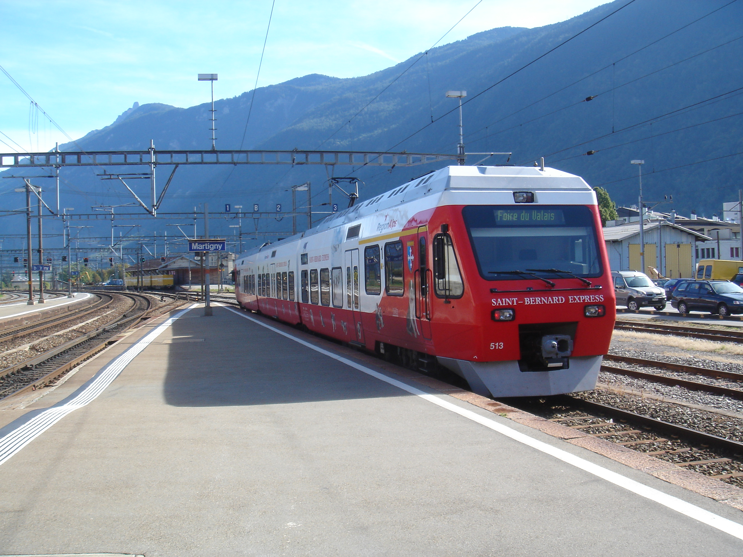 TMR NINA RABe 537 513 leaving Martigny station bound for Le Châble (Verbier)